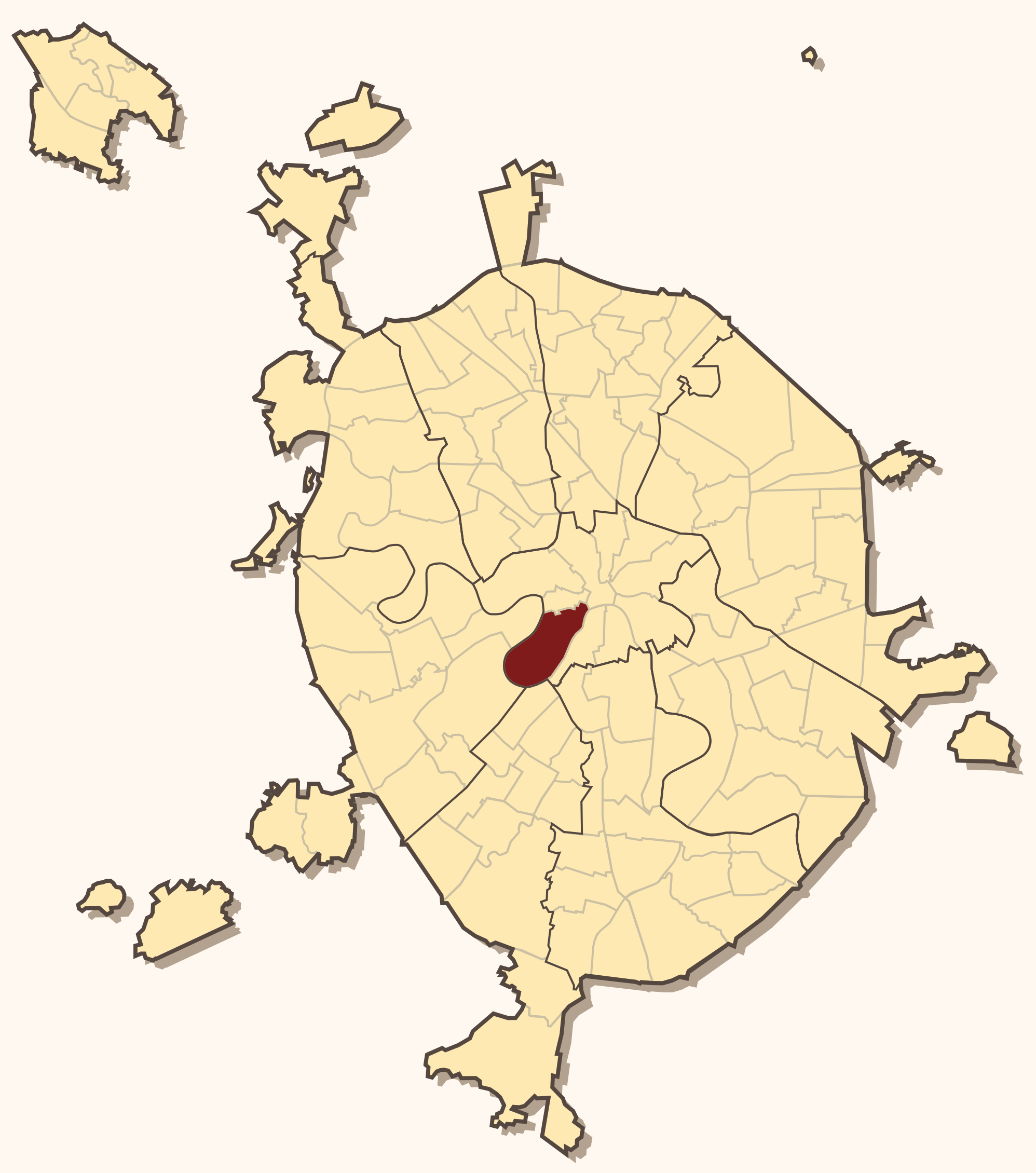 Moscow districts map